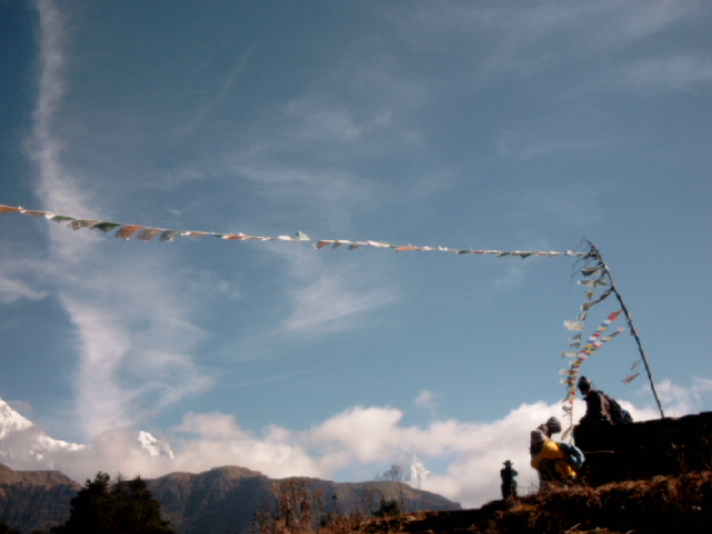 Sky and Buddhist prayer flags, waving in the wind. Photo taken in Nepal.